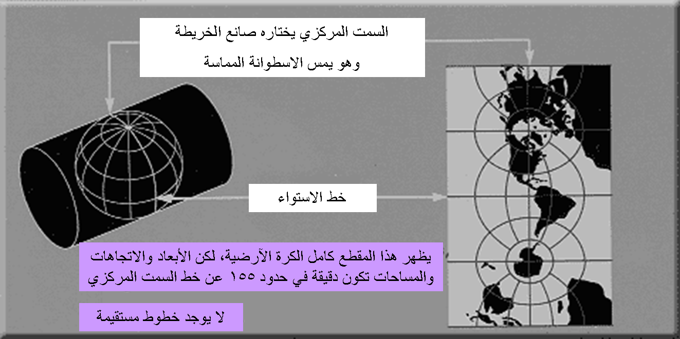 Transverse Mercator Projection